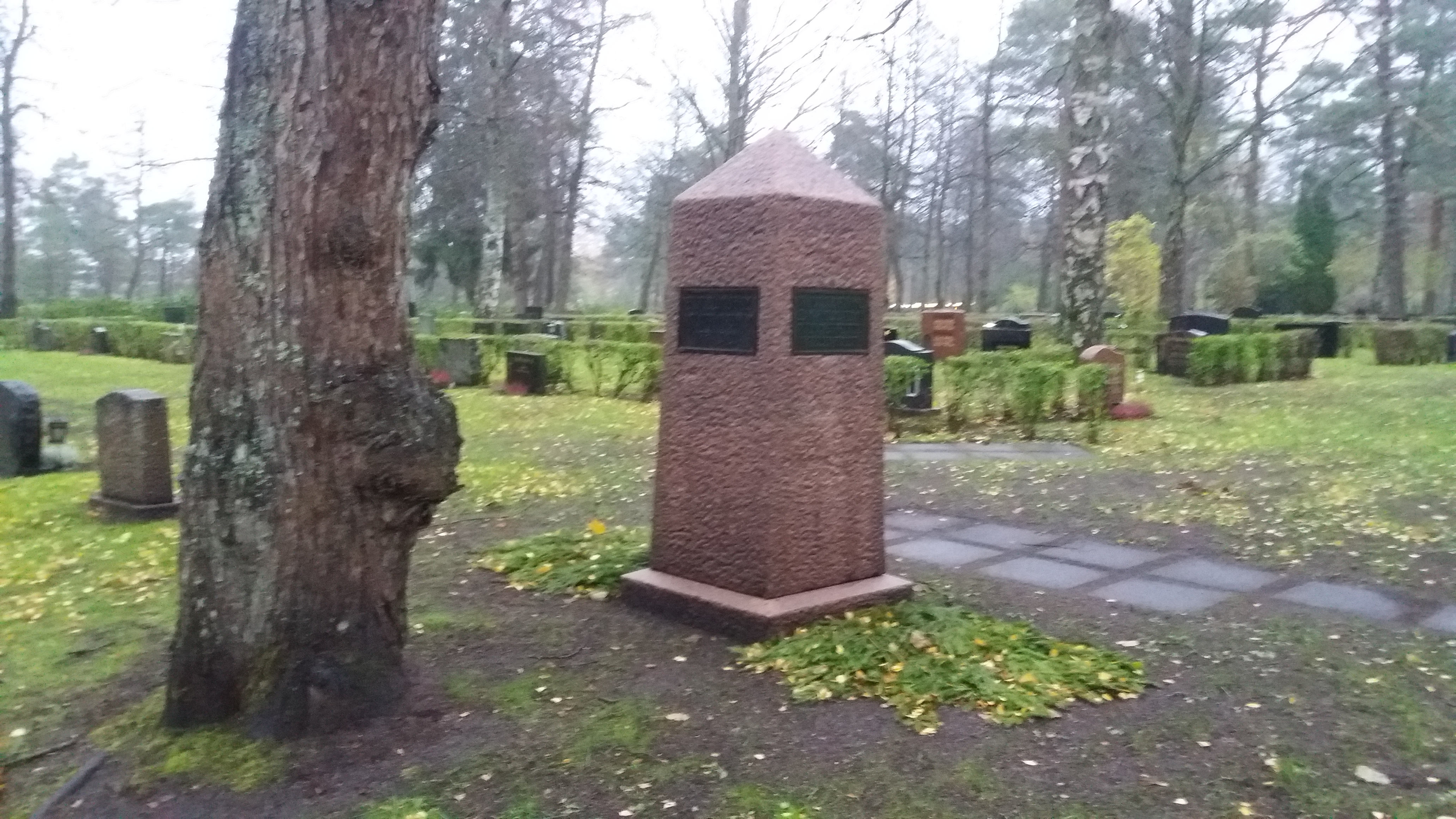 1918 Finnish Civil War Red Guard memorial in the Turku Cemetery. Monument was erected in 1921 and the plaques attached in 1941.